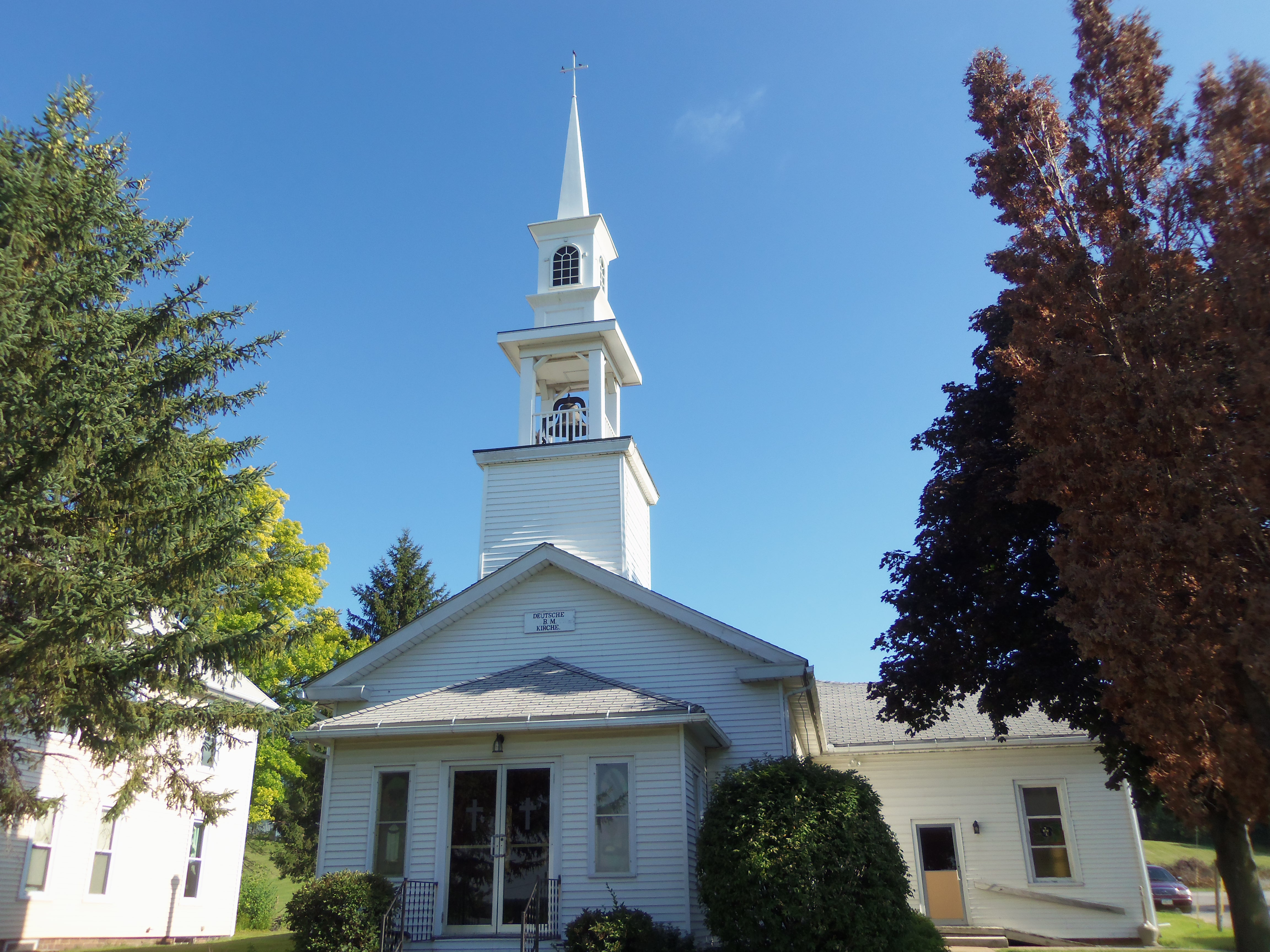 Calvary Lutheran Church (ELCA) in Buffalo, Iowa.